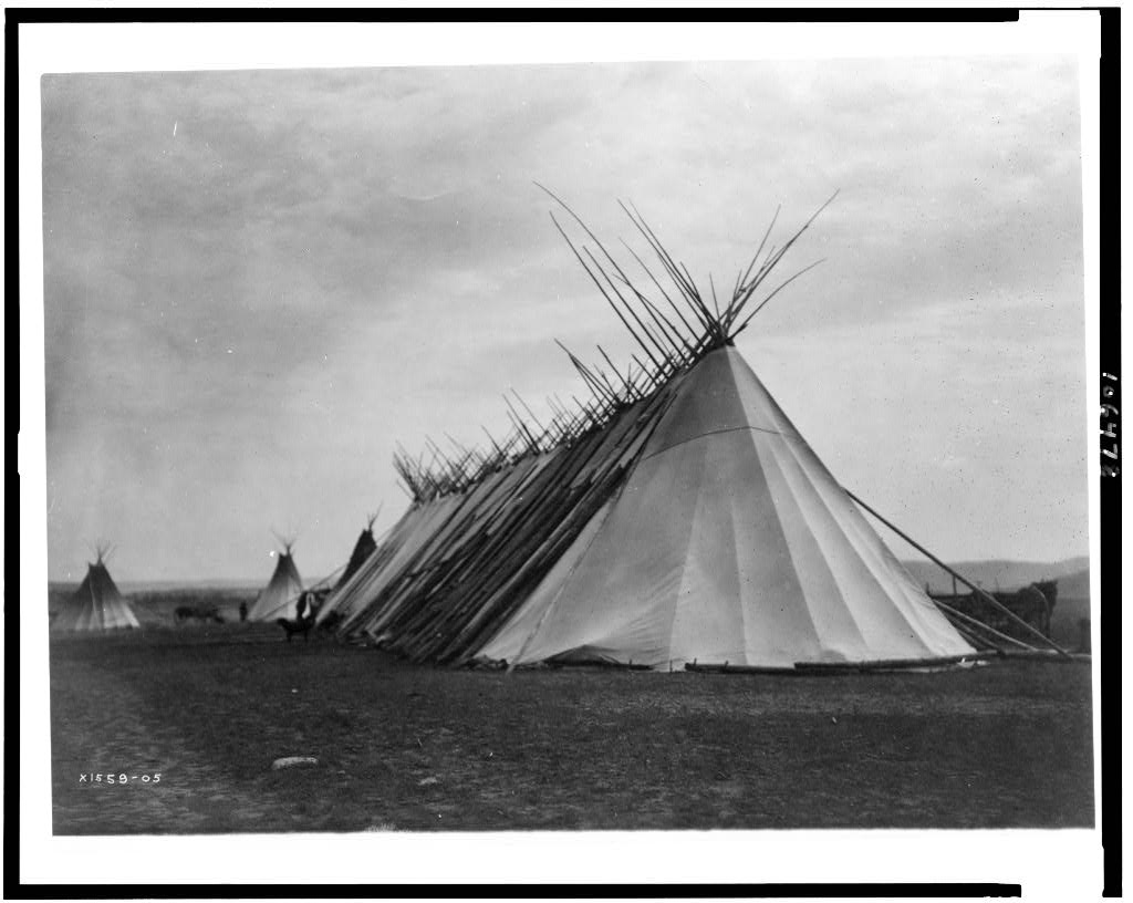 TITLE: [Joseph Dead Feast Lodge--Nez Percé] CALL NUMBER: LOT 12325-C [P&P] Check for an online group record (may link to related items) REPRODUCTION NUMBER: LC-USZ62-106478 (b&w film copy neg.) MEDIUM: 1 photographic print. CREATED/PUBLISHED: c1905. CREATOR Curtis, Edward S., 1868-1952, photographer. NOTES: H67009 U.S. Copyright Office. Edward S. Curtis Collection. Curtis no. 1559-05. Published in: The North American Indian / Edward S. Curtis. [Seattle, Wash.] : Edward S. Curtis, 1907-30, v. 8, p. 40. SUBJECTS: Indians of North America--Structures--1900-1910. Nez Percé Indians--Structures--1900-1910. Tipis--1900-1910. FORMAT: Book illustrations 1900-1910. Photographic prints 1900-1910. DIGITAL ID: (b&w film copy neg.) cph 3c06478 CONTROL #: 93500494